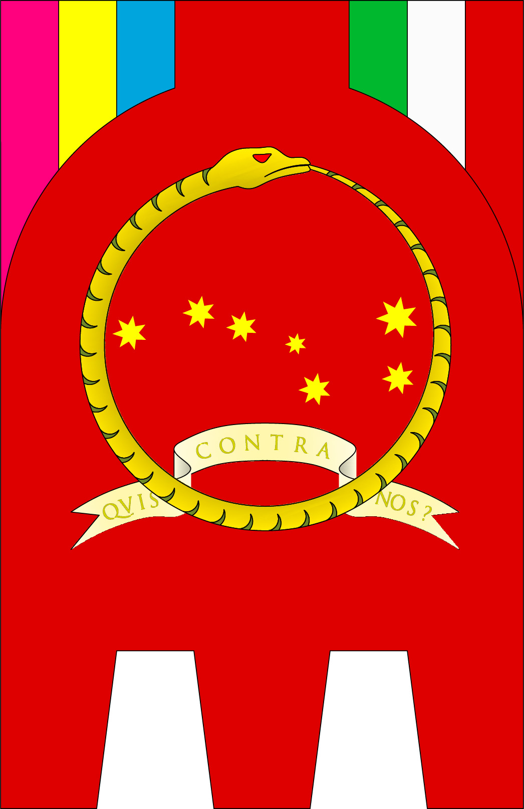 Reggenza del Carnaro Bandiera R.I. del Carnaro - flag of the Reggenza Italiana del Carnaro, Italian Regency of the Kvarner, unofficial Fiume State in 1919-20. Motto: Quis contra nos (en: "Who against us?"; it: "Chi contro di noi?") The flag was an original concept by Gabriele D'Annunzio, "commander" of the Italian Regency.